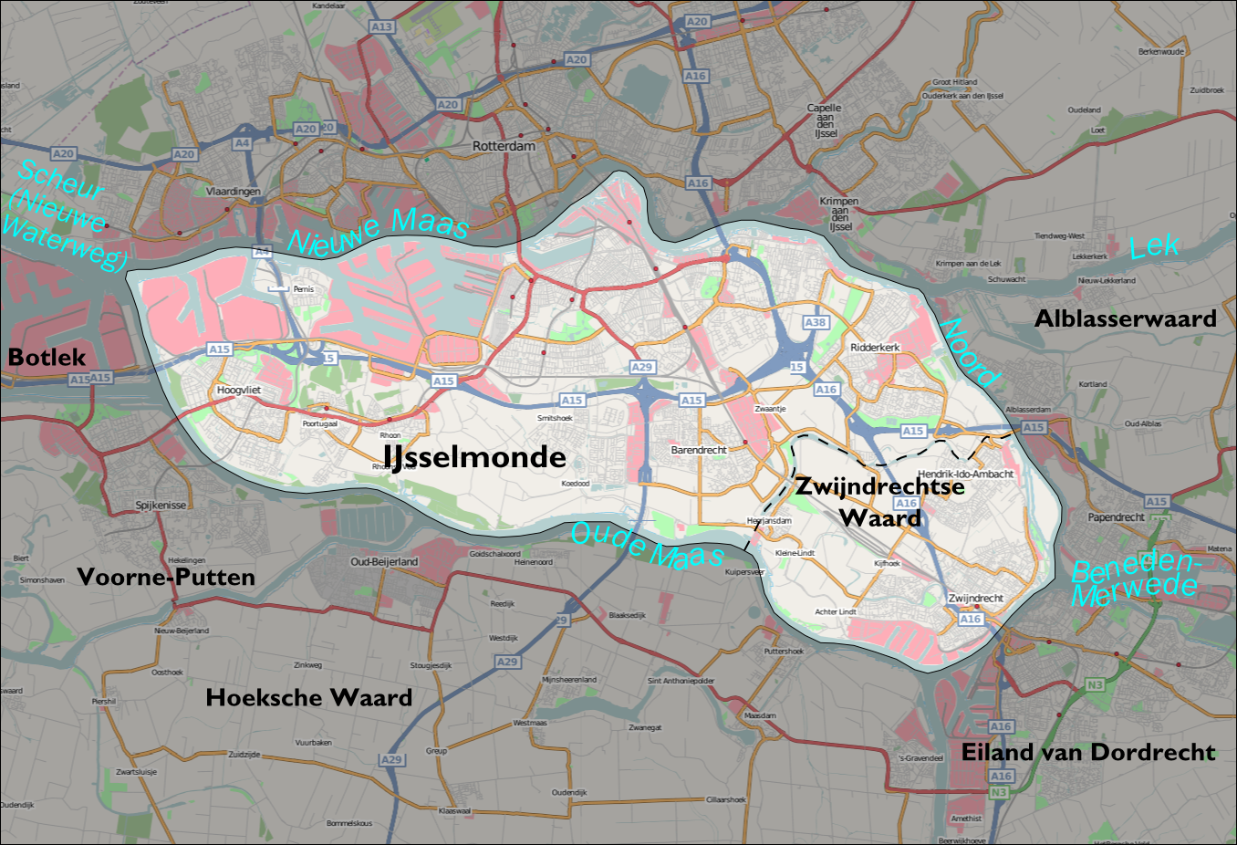 Map of the IJsselmonde 'island' south of Rotterdam (Netherlands). The background map is taken from . The boundary was drawn by me using the description in the Dutch IJsselmonde article.